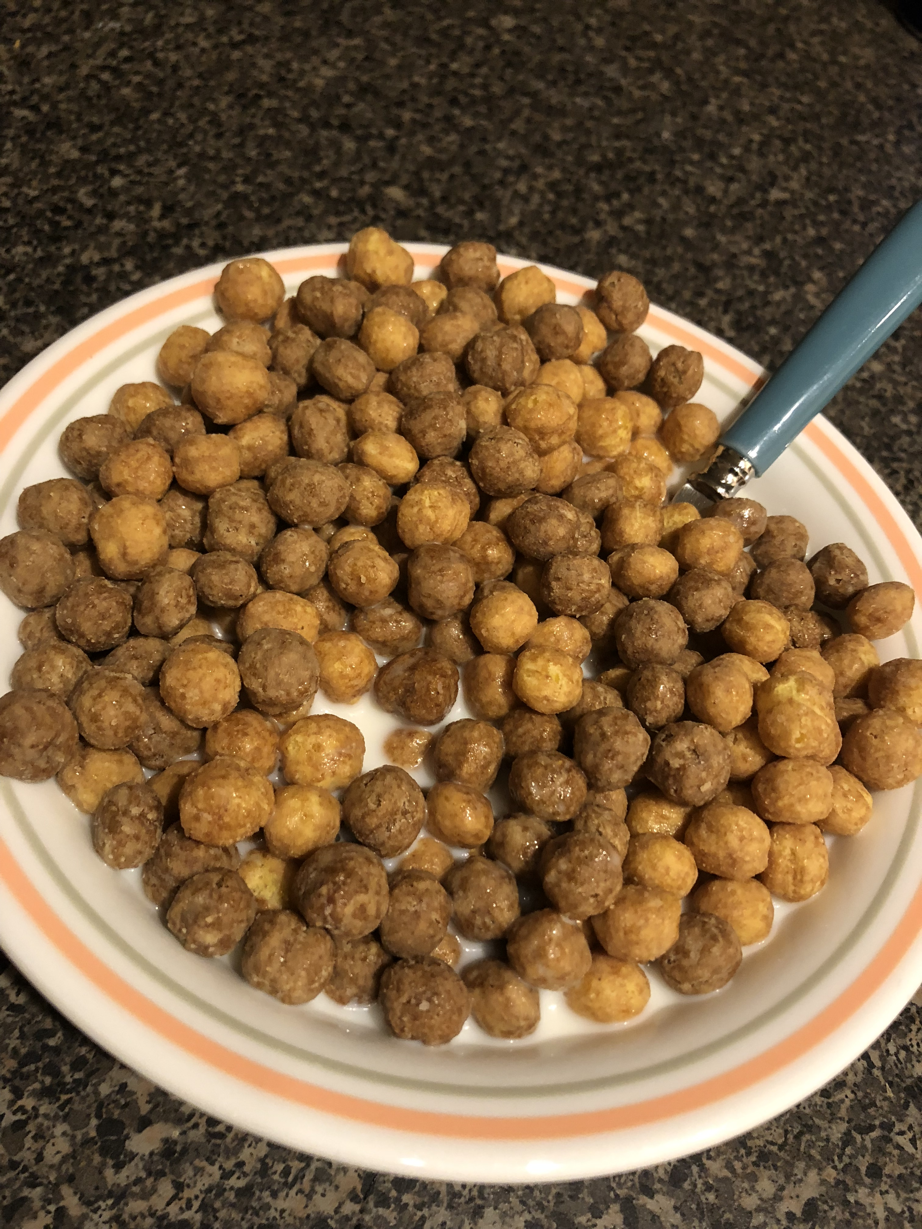 It's a bowl of Reese's Puffs cereal.